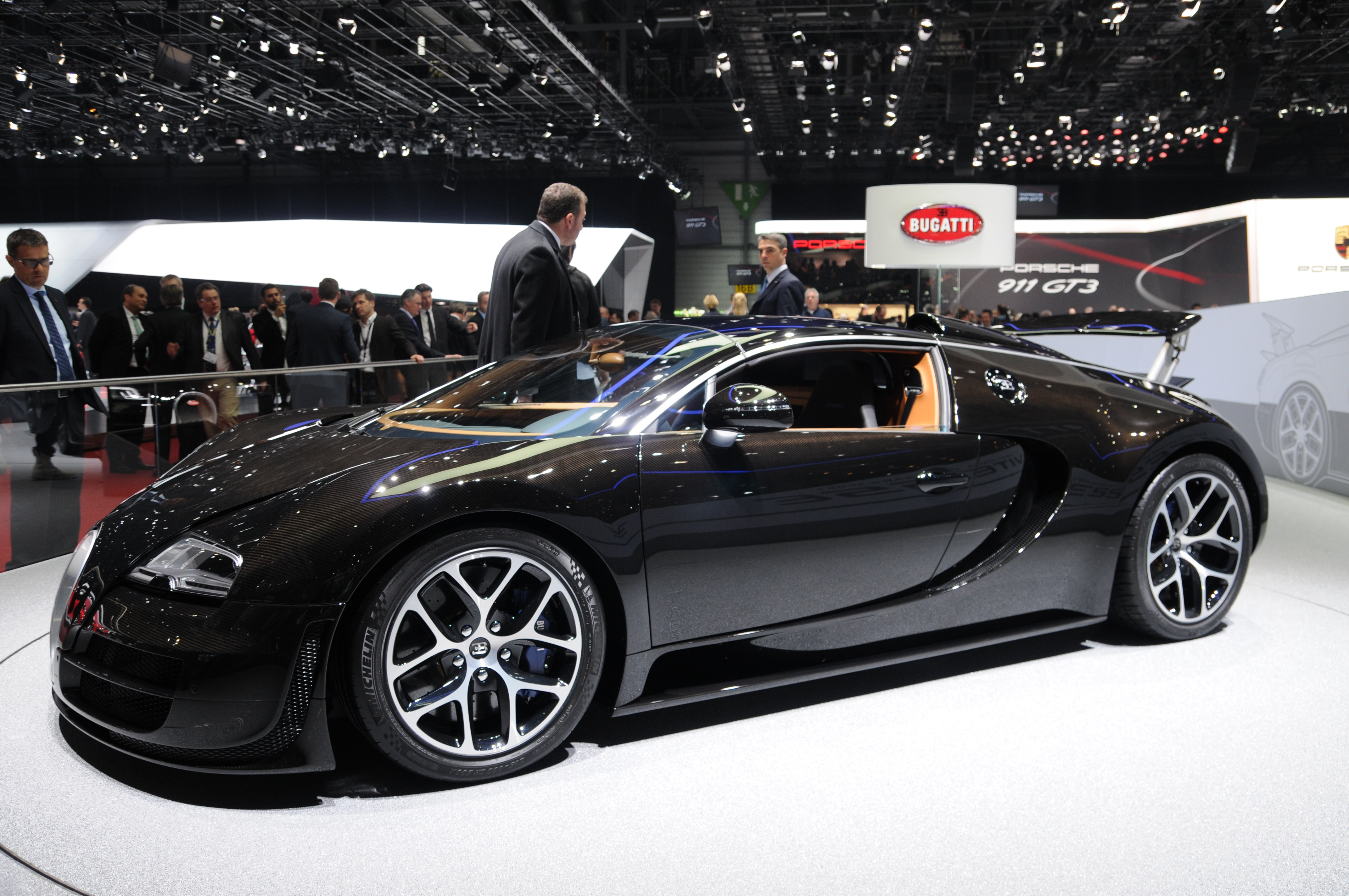 Geneva Motor Show 2013 (photos taken on the first press day)